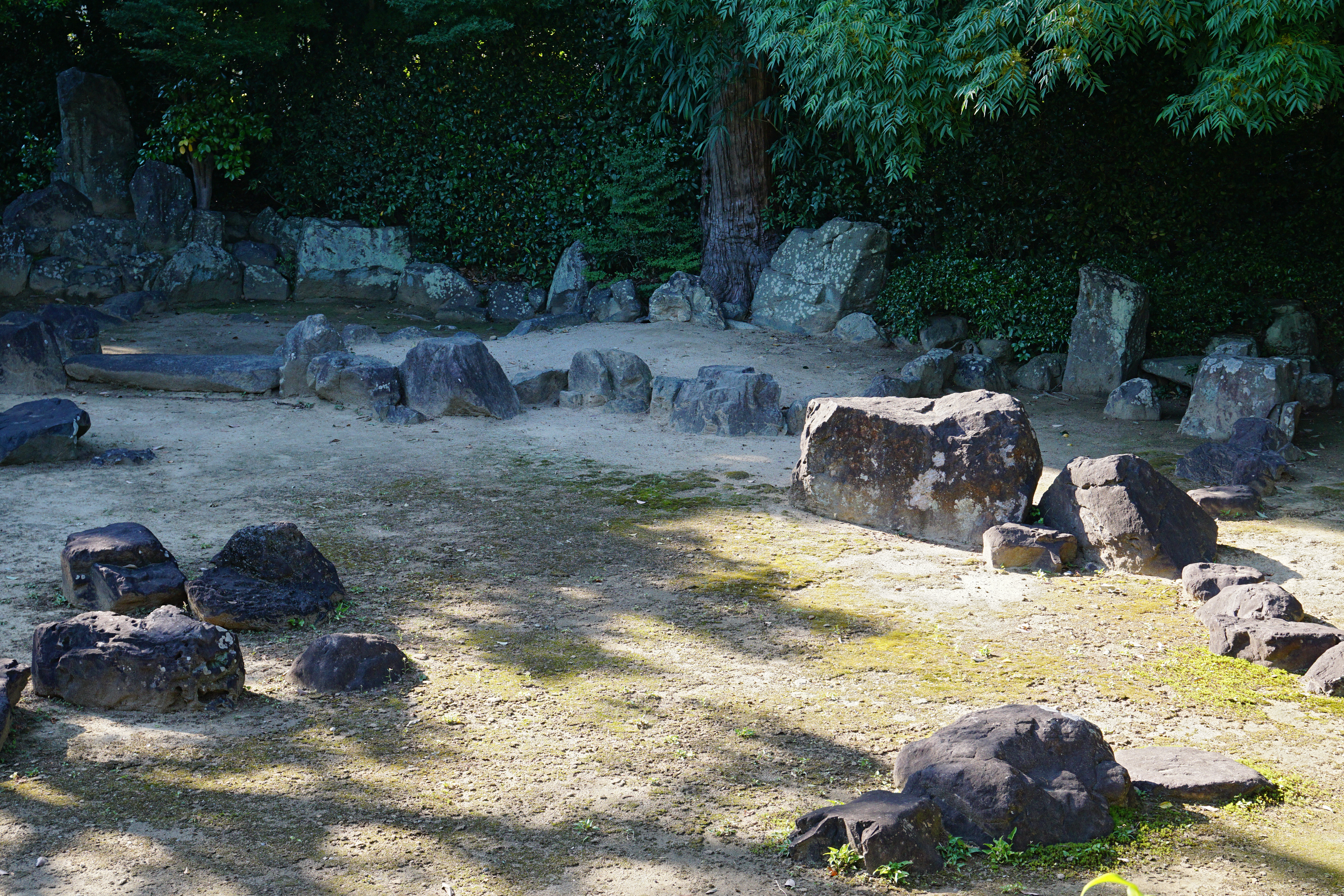 Fumonji in Takatsuki, Osaka prefecture, Japan